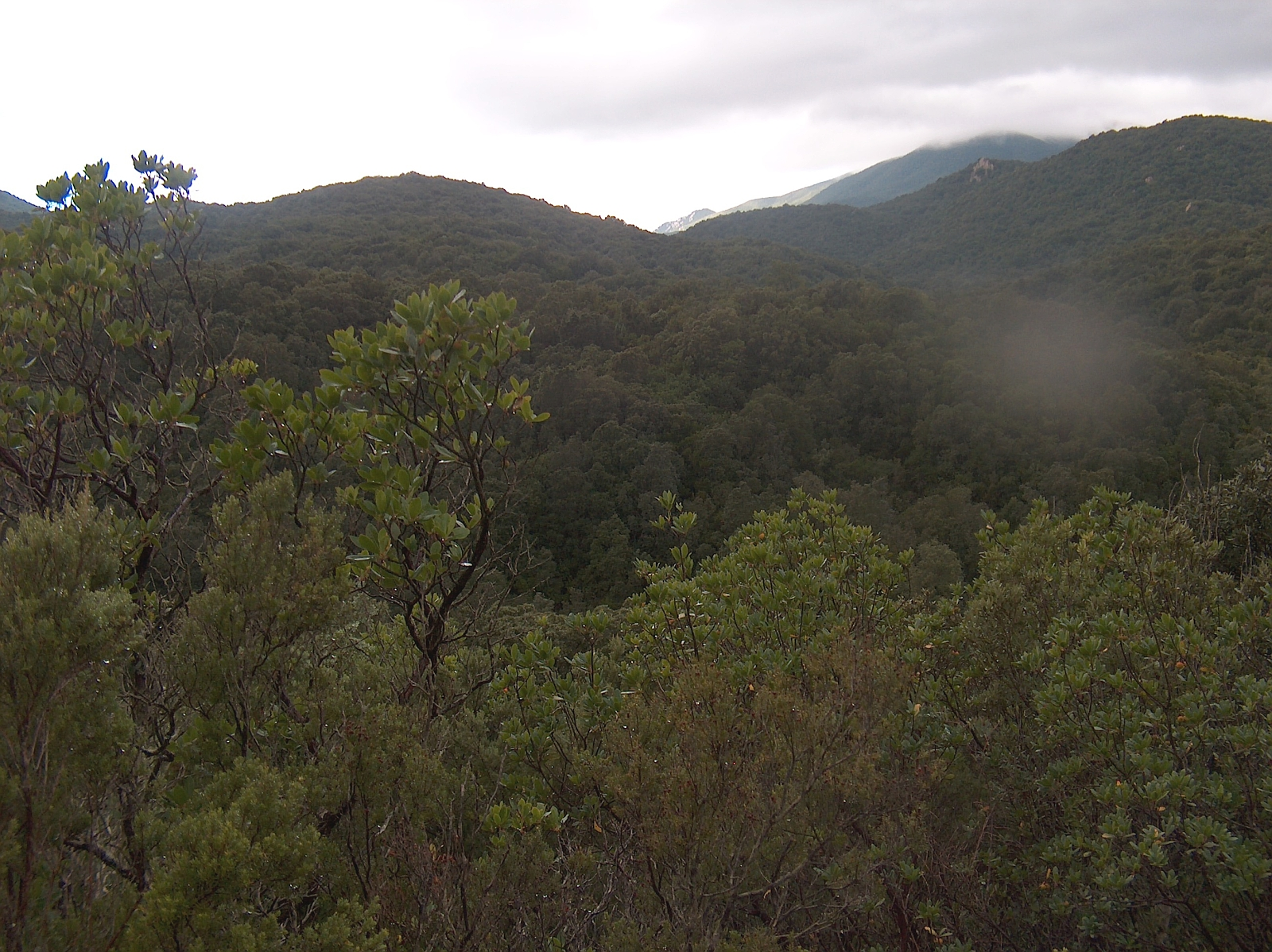 Mount Is Caravius (1116 m), the highest peak of Sulcis mountains, at the right of the picture. View from the forest of Gutturu Mannu